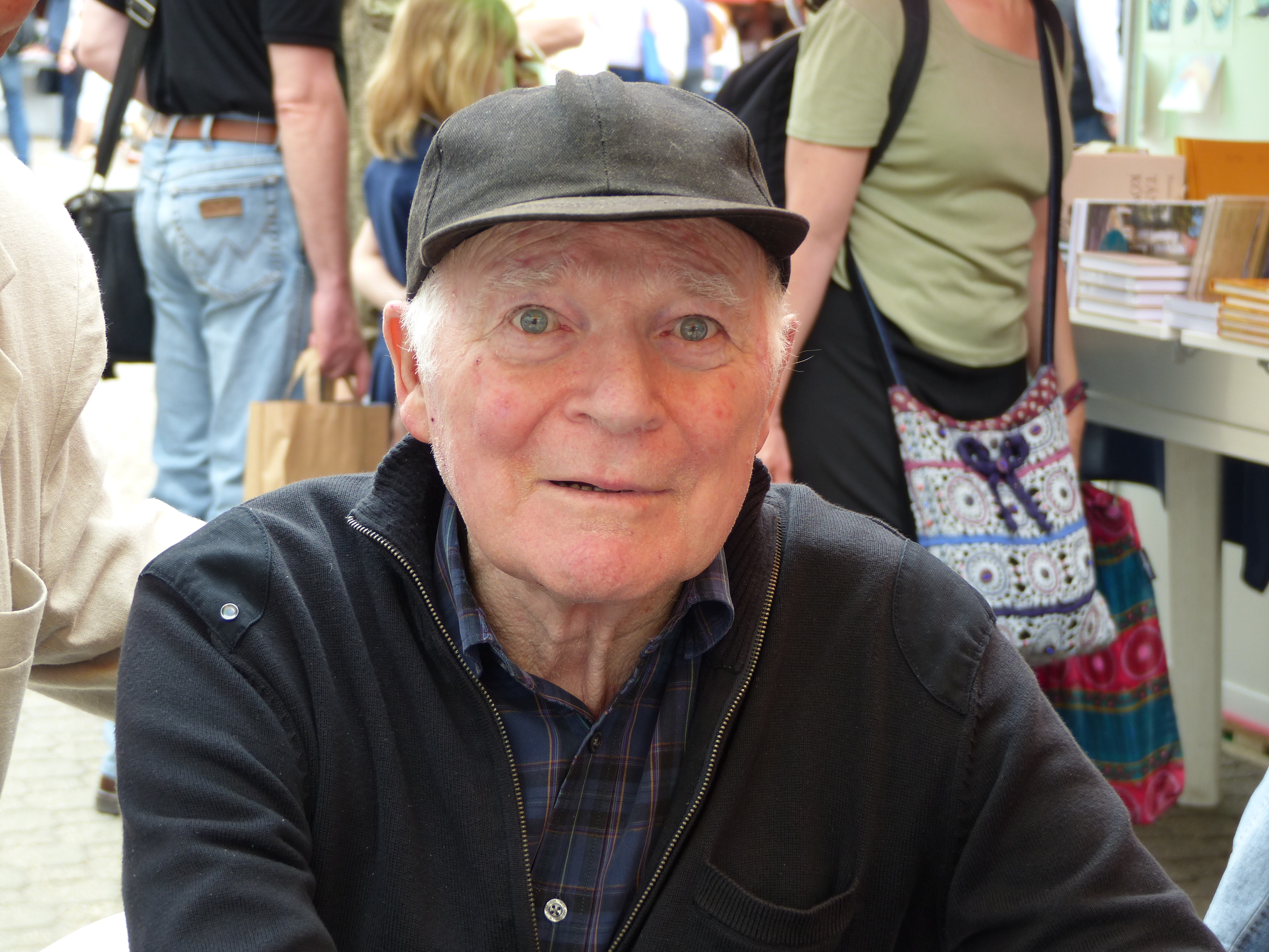 Moldova György. Taken on the 10th of June, 2016. Vörösmarty tér, Downtown Budapest. 87. Ünnepi Könyvhét.